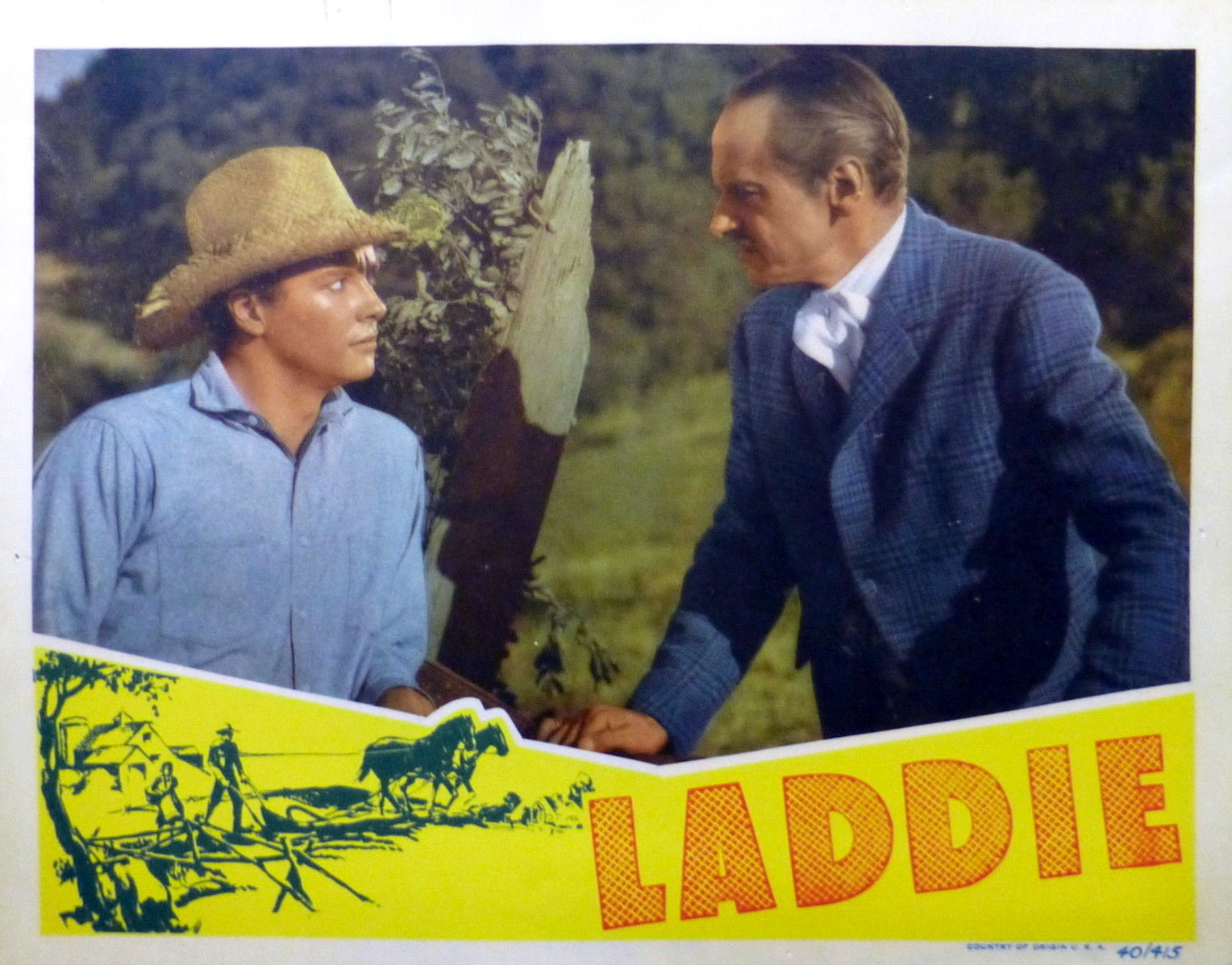 Lobby card for the American drama film Laddie (1940). Laddie (Tim Holt) and Mr. Pryor (Miles Mander). There are no copyright marks on the item, which can be seen at the link. At bottom right is Country of origin USA and 40/415.